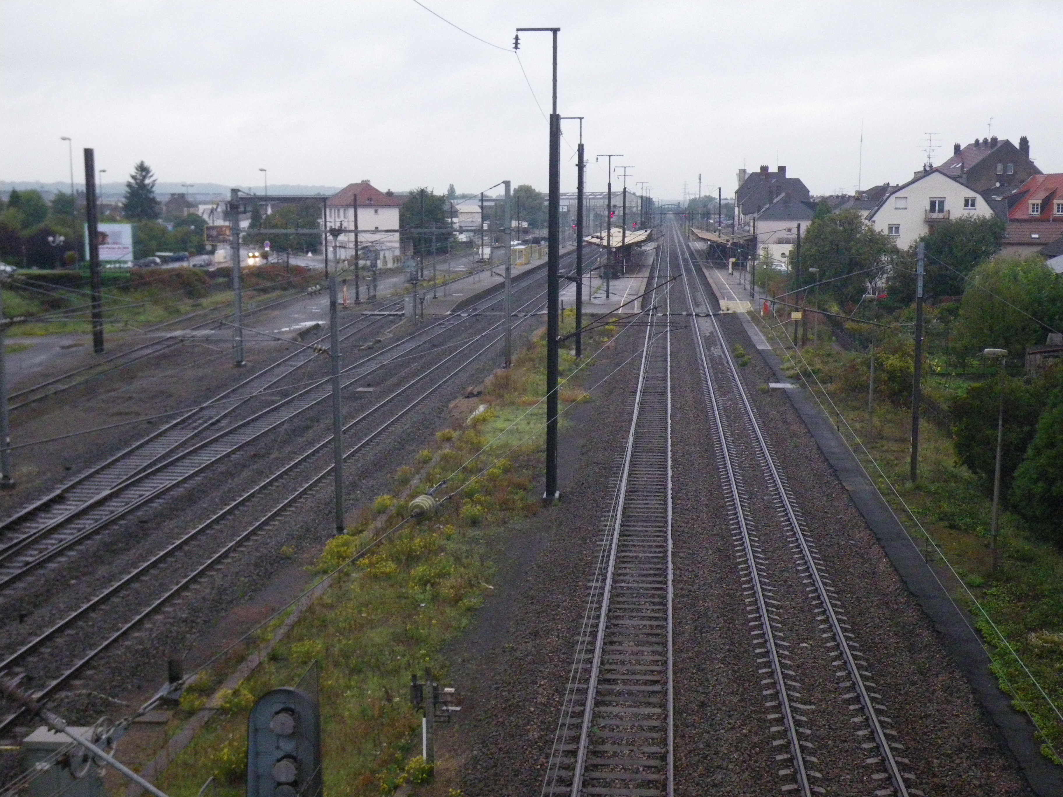 The train station of Hagondange, Moselle, France.